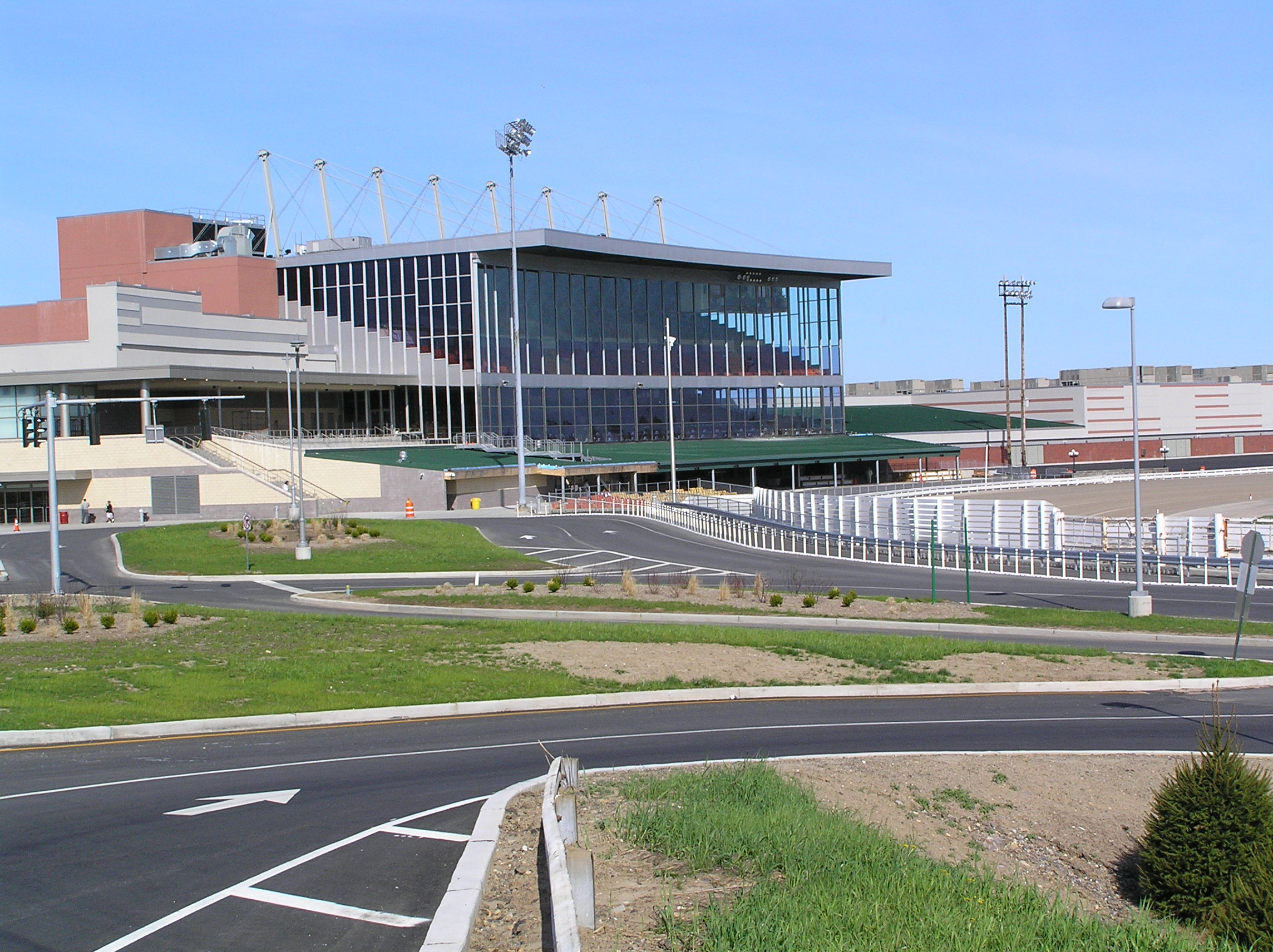 I took this photograph of Yonkers Raceway from exit of New York State Thruway.